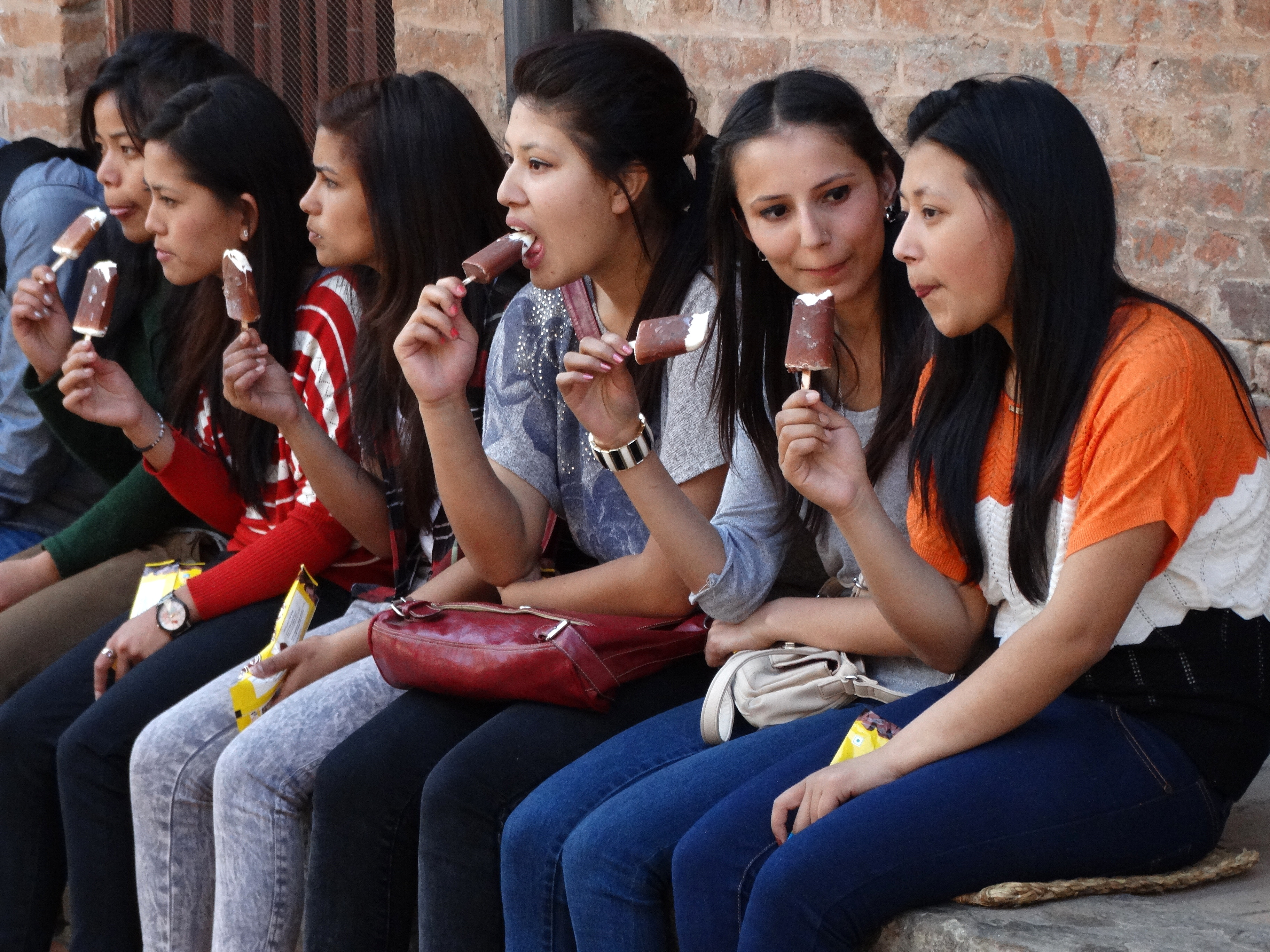 Women eating ice cream bars in Nepal